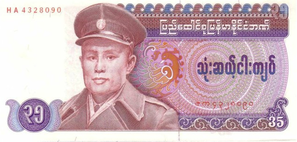 35 kyat front